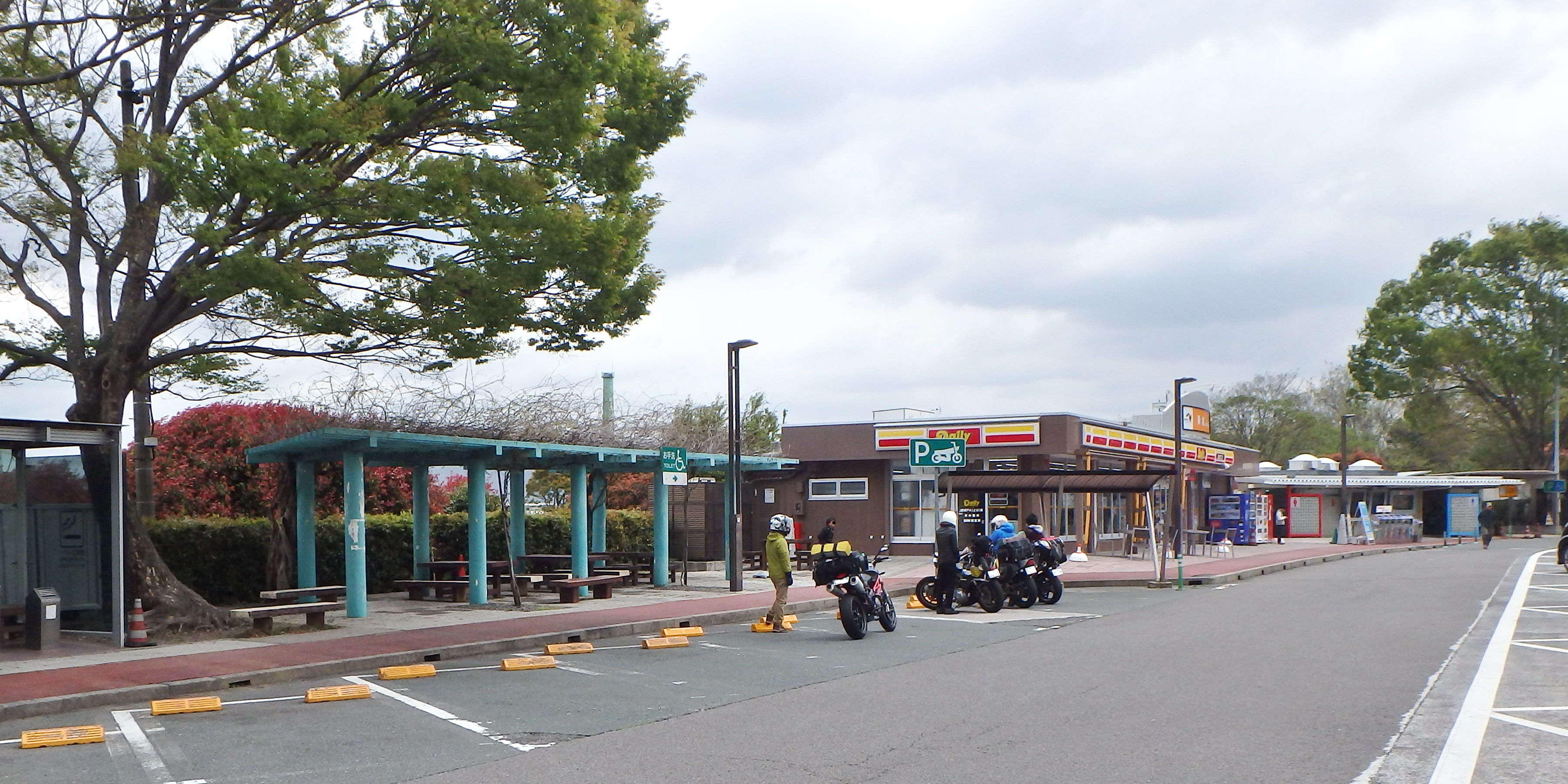 Shinshiro Parking Area for Tokyo,Aichi prefecture,Japan